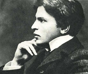 Portrait of Romanian violinist, pianist, cellist, conductor, composer, polyglot and general genius, George Enescu.